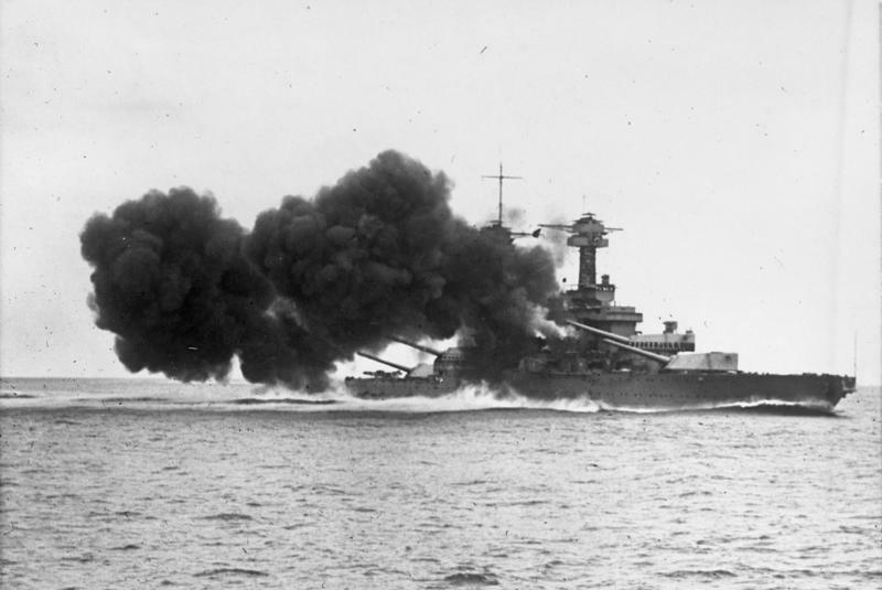 America spends 1 billion dollars for the development of its fleet in the 1930 to 1932 building program! Our picture shows the American battle cruiser "California" firing on the occasion of a maneuver of the coast of Los Angelos.